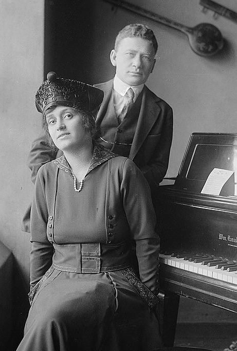 Russian-born American composer, conductor and violinist Efrem Zimbalist (1890-1985) with his wife Romanian-American opera singer Alma Gluck (1884-1938)